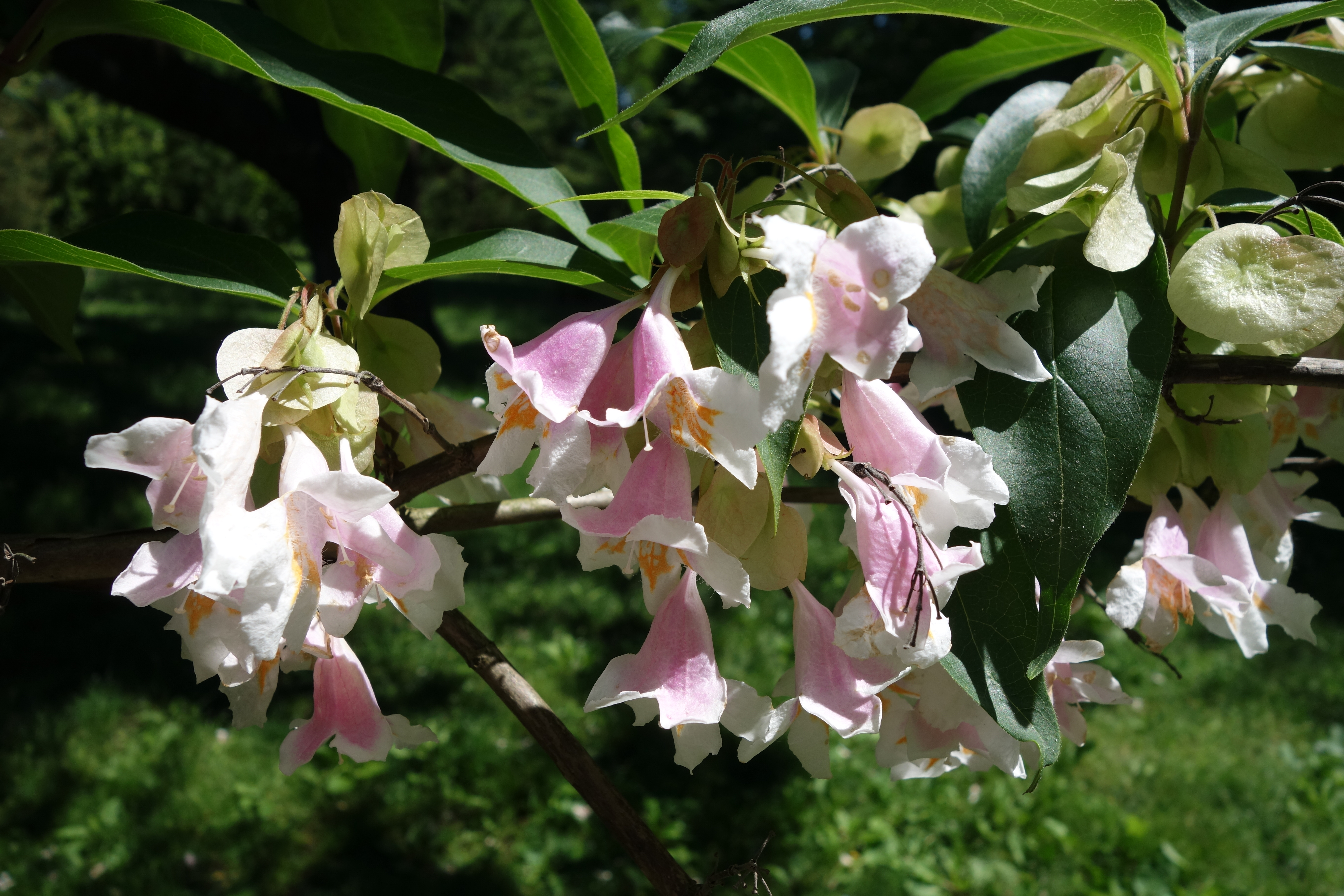 Botanical specimen in Arnold Arboretum, Jamaica Plain, Boston, Massachusetts, USA.